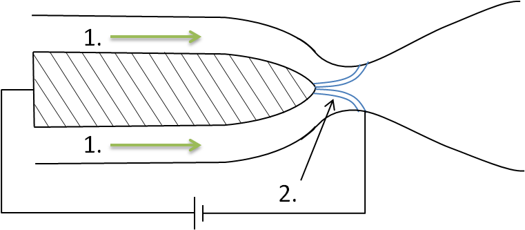 Simplified structure of an arcjet: 1. Propellant flow 2. Location of plasma arcEesti: Lihtsustatud kaarlahendusmootori struktuur: 1. Tõukeaine pealevool 2. Kaarlahendus